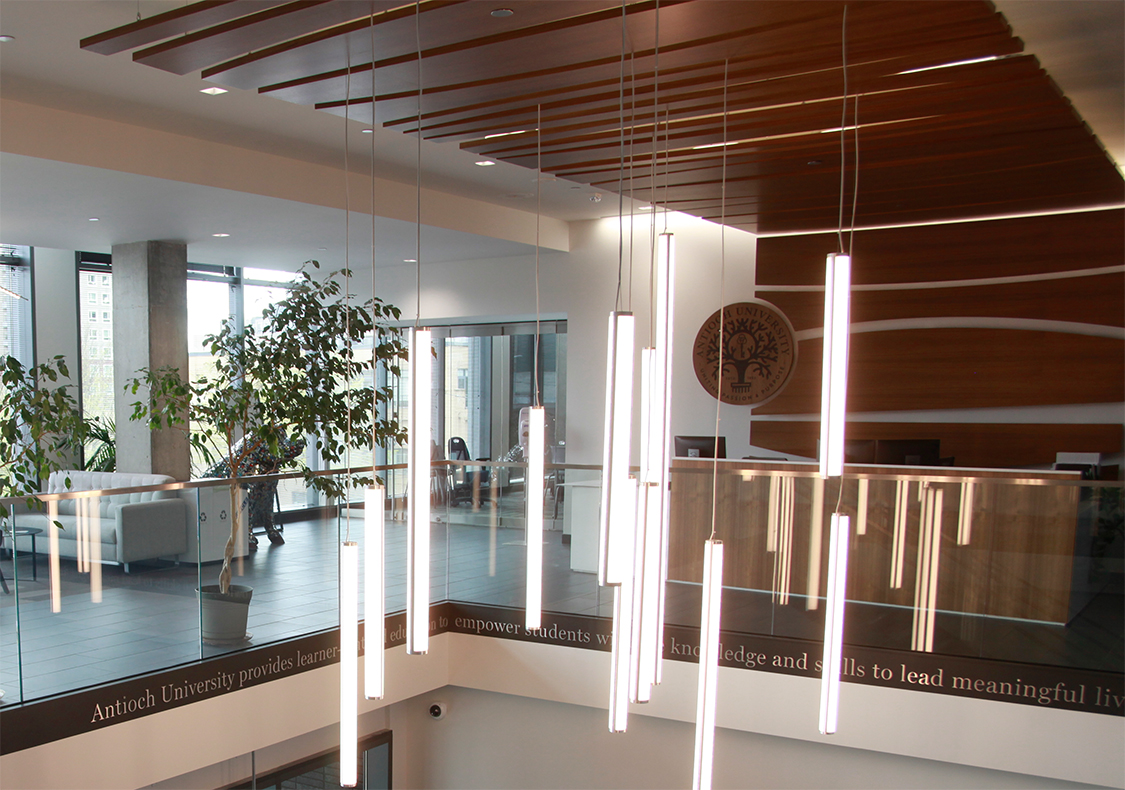 A 2017 photograph of the campus lobby of Antioch University Seattle.